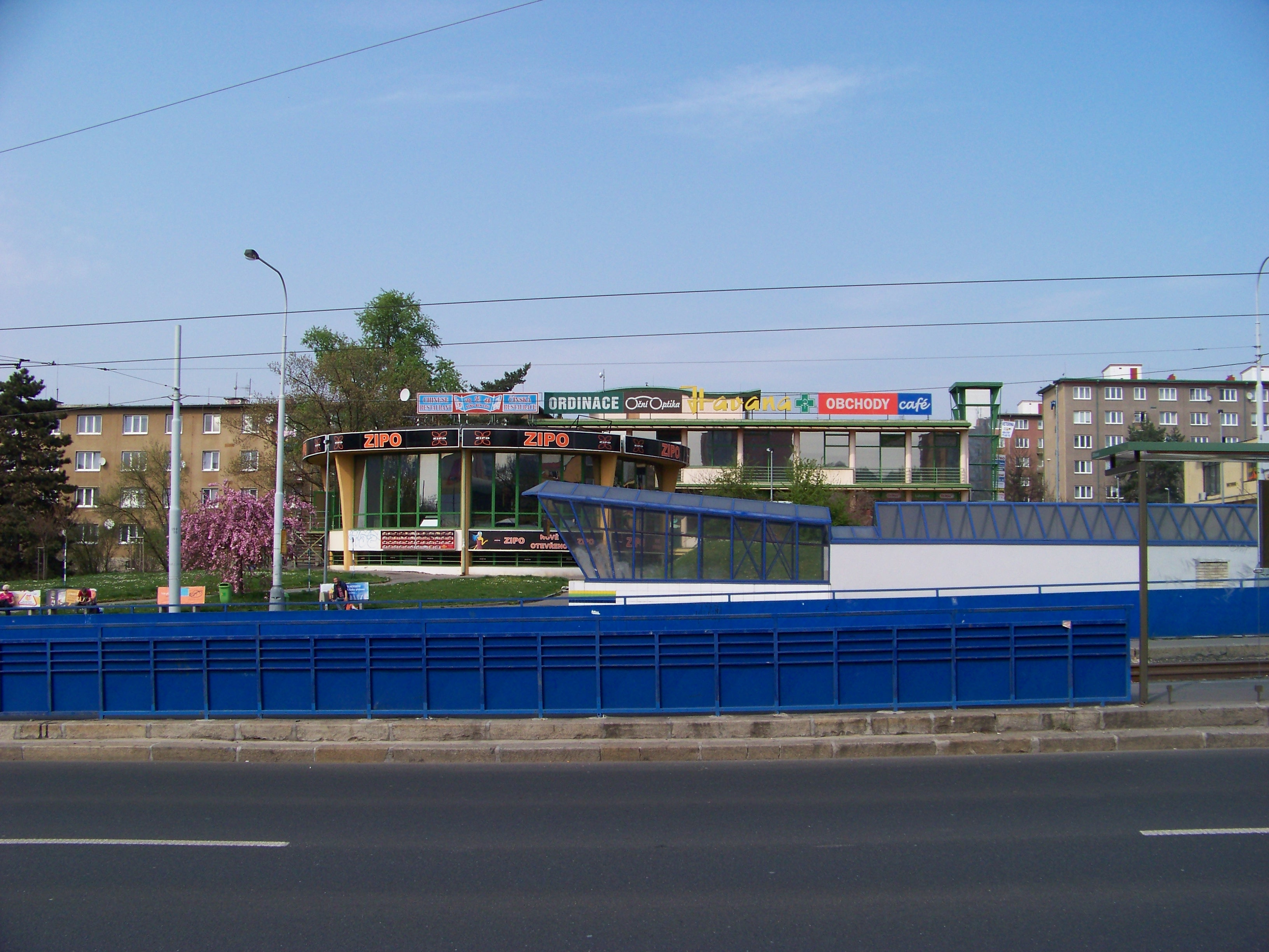 Prague-Hloubětín, Czech Republic. Poděbradská street, Havana shopping centre. - Google Maps - Google Earth